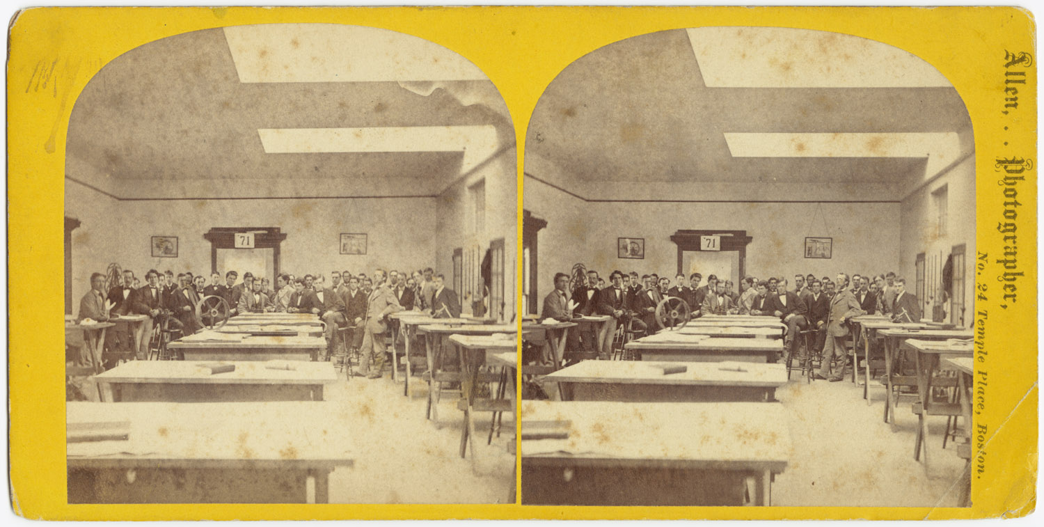 File name: 06_11_000068 Title: Drawing room, Institute of Technology Alternative title: Creator/Contributor: Allen, E. L. (Edward L.) (photographer) Created/Published: Date issued: Date created: 1860-1890 (approximate) Physical description: 1 photographic print on stereo card : stereograph Genre: Stereographs Subjects: Universities & colleges Notes: Title from handwritten text on verso.; Class 71 Series: Location: Boston Public Library, Print Department Rights: No known restrictions